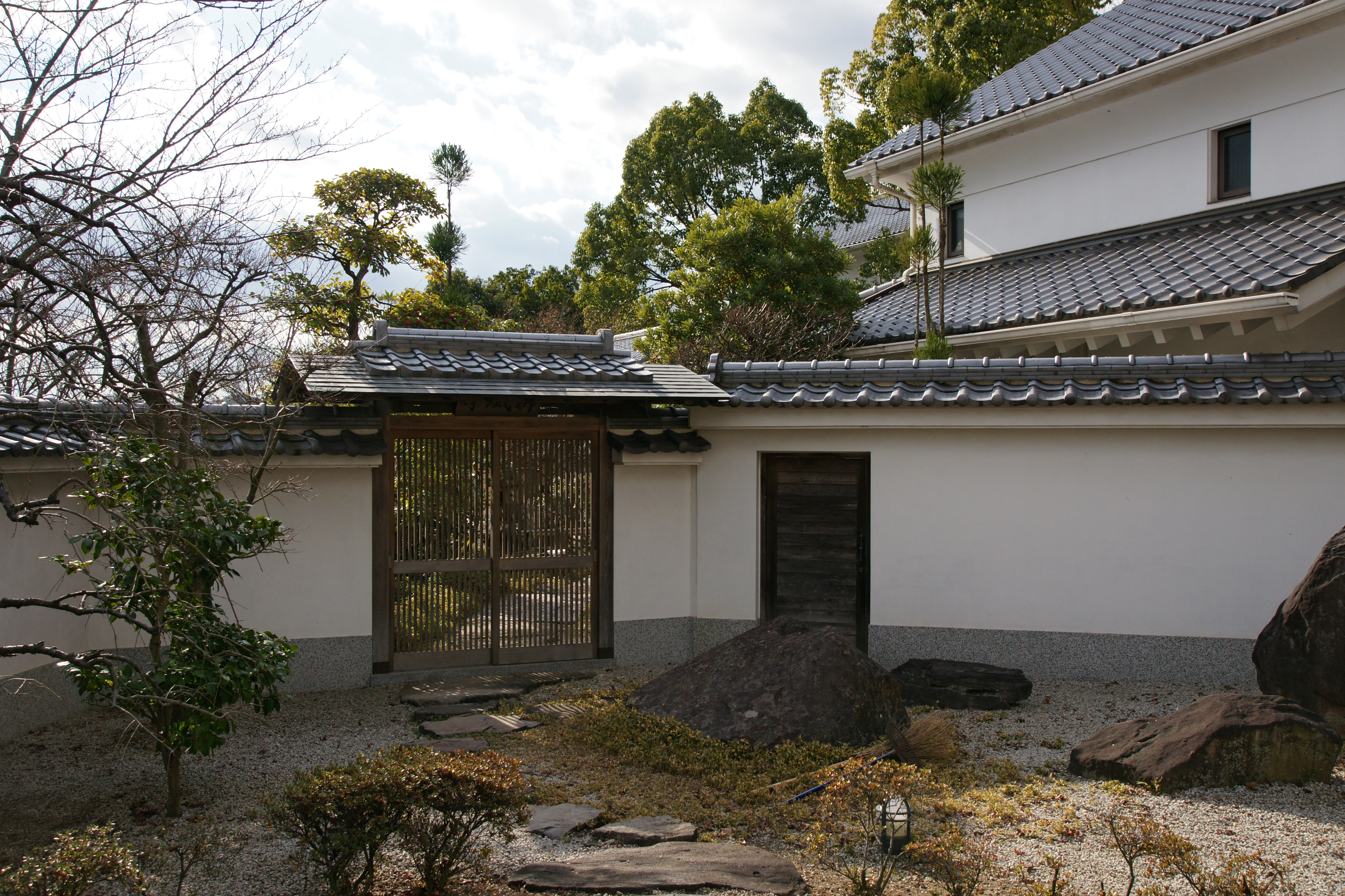 City Museum Ono (Kokokan) in Ono, Hyogo prefecture, Japan.